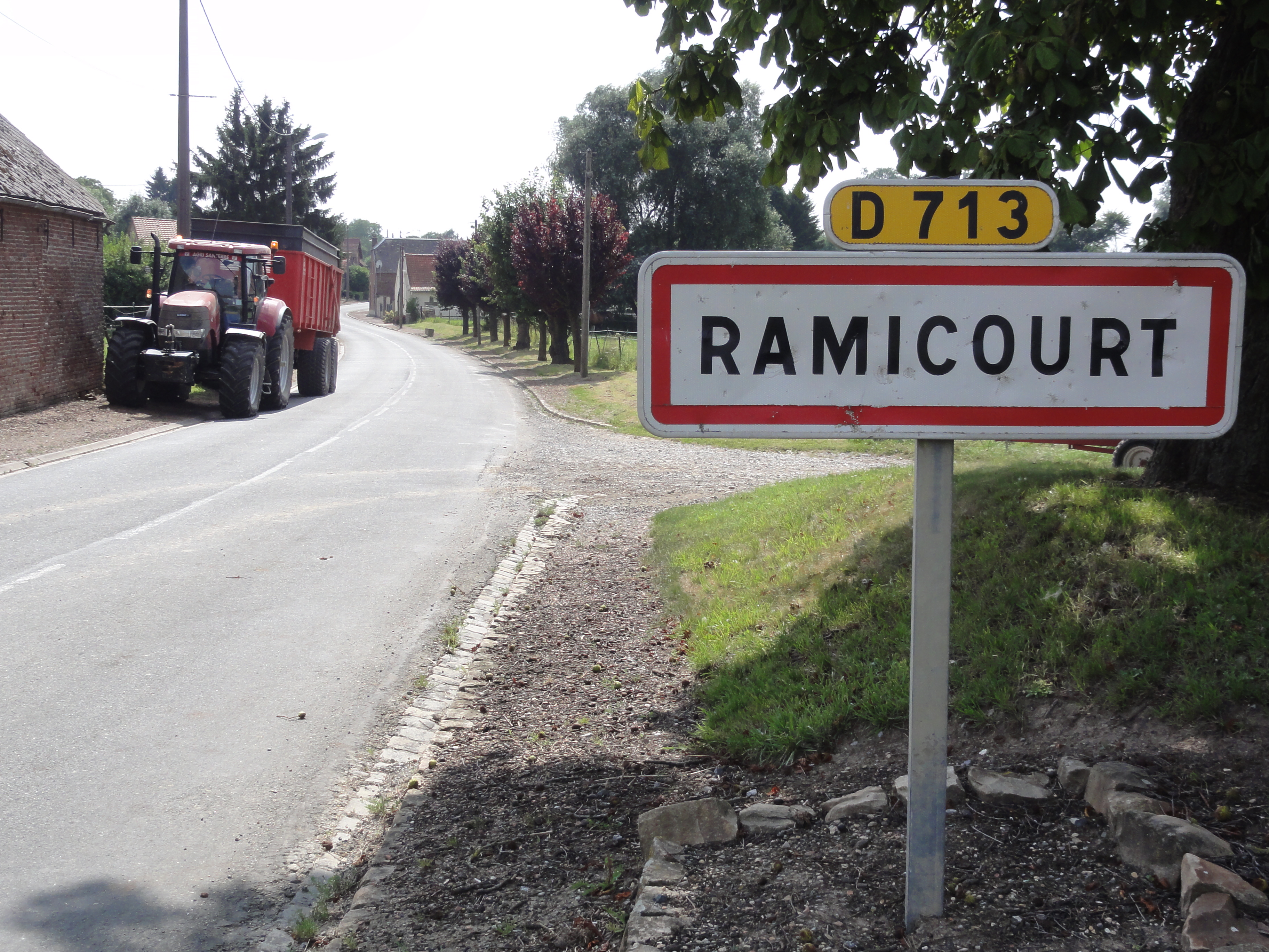 Ramicourt (Aisne) city limit sign